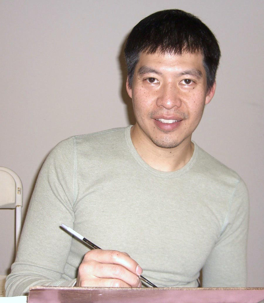 Comic book creator Sean Chen at the November 2008 Big Apple Convention in Manhattan. Photographed by Luigi Novi. This photo is not in the public domain. It may, however, be used, modified and published for any purpose, only if an easily visible credit to the photographer is placed near the photo in each instance in which it is used. (See licensing information below.) Publication of this photo without this proper attribution constitutes copyright infringement. For more information on my photos, you can contact me here.